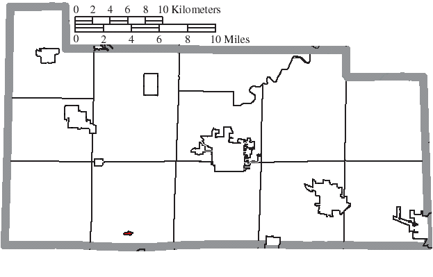 Map of the municipal and township boundaries of Sandusky County, Ohio, United States, as of the 2000 census, with the location of the village of Burgoon highlighted. Township borders are shown only in unincorporated areas in order to differentiate incorporated and unincorporated areas more clearly.